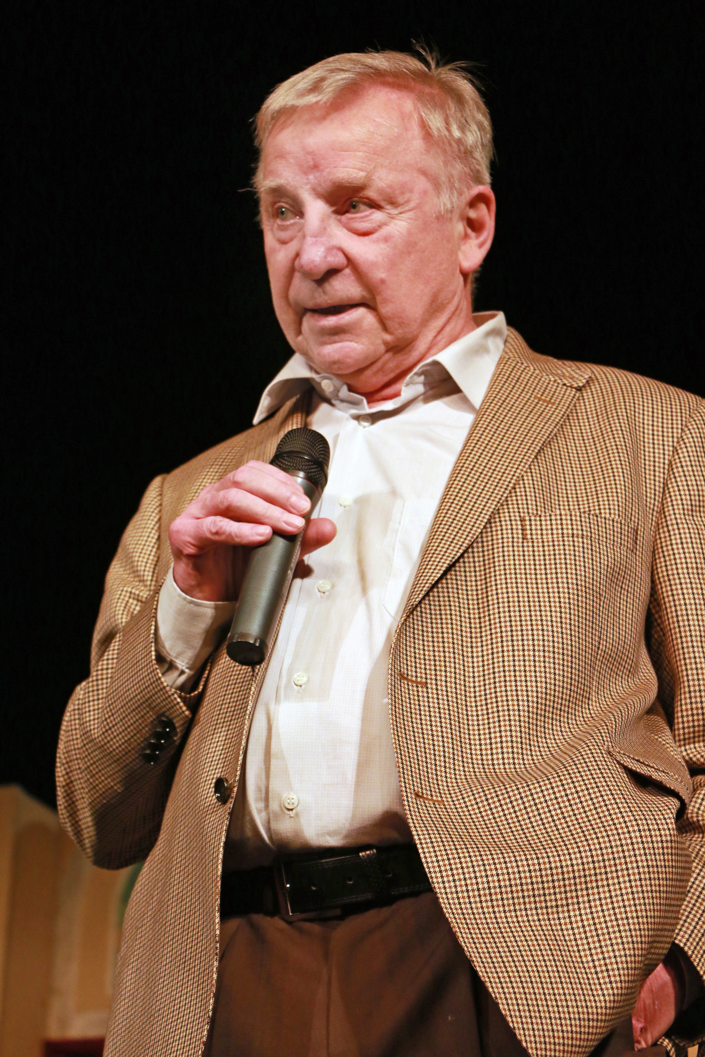 Czech scientist Jiří Bičák in 2016.